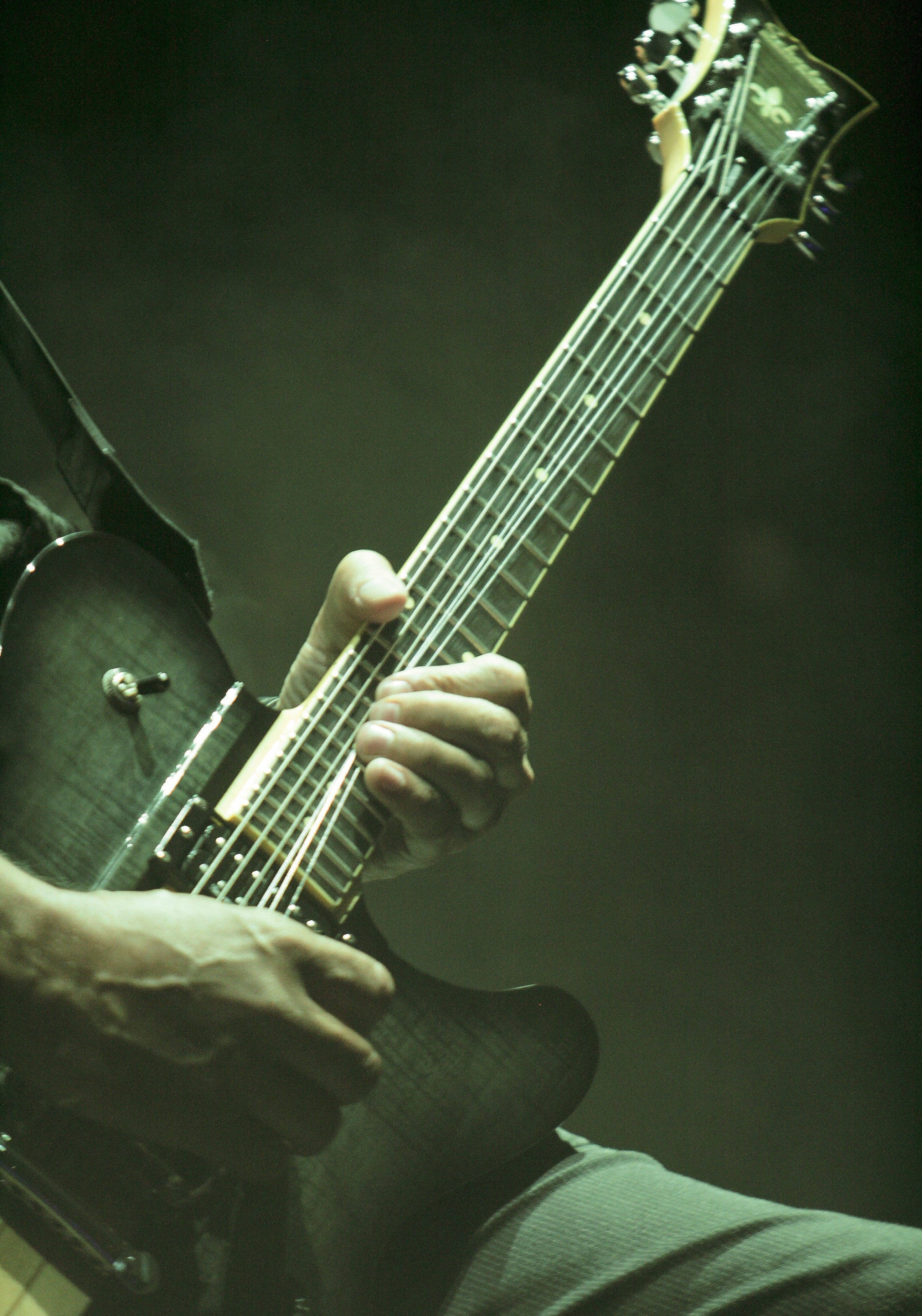 Dan Donegan playing his signature model guitar at Mayhem Festival 2011.